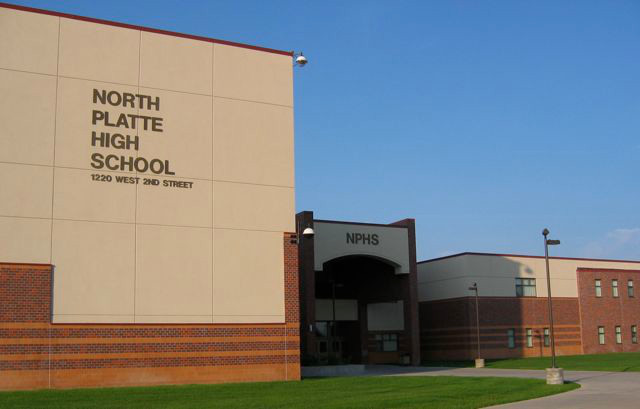 This is the North side (main entrance) of the current North Platte High School building, located in North Platte, Nebraska.